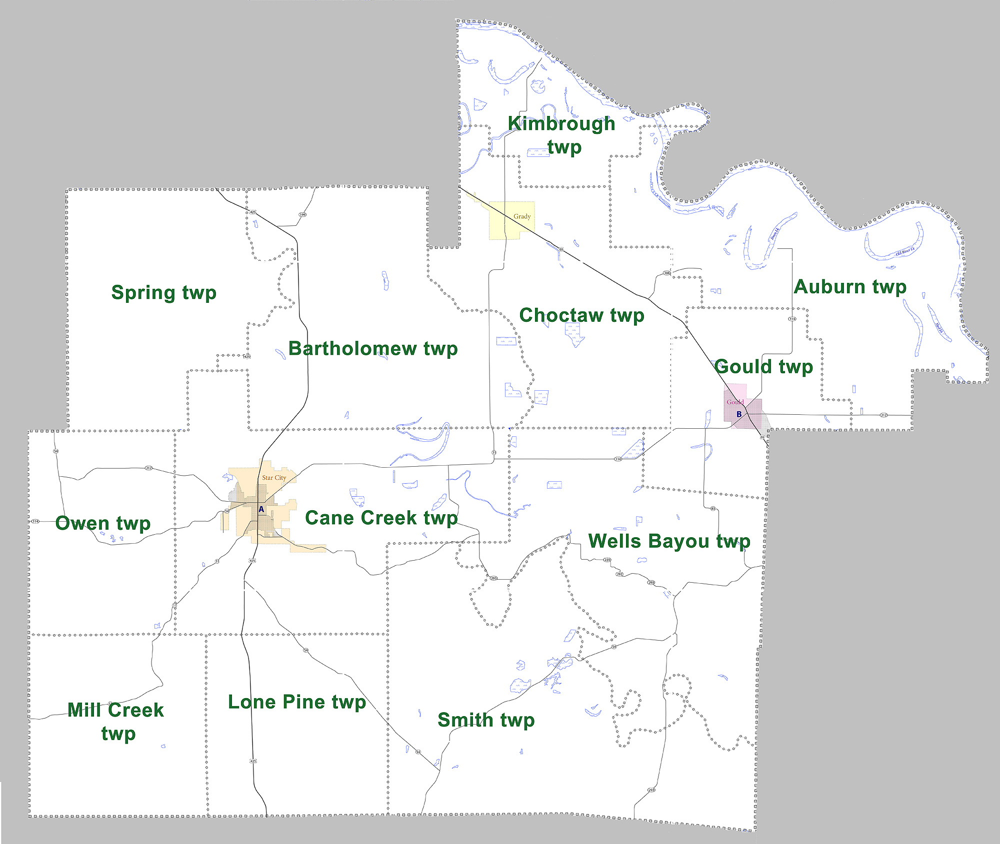 Large map showing townships in Lincoln County, Arkansas. Modified from US census map (for 2010 census) for Lincoln County, Arkansas